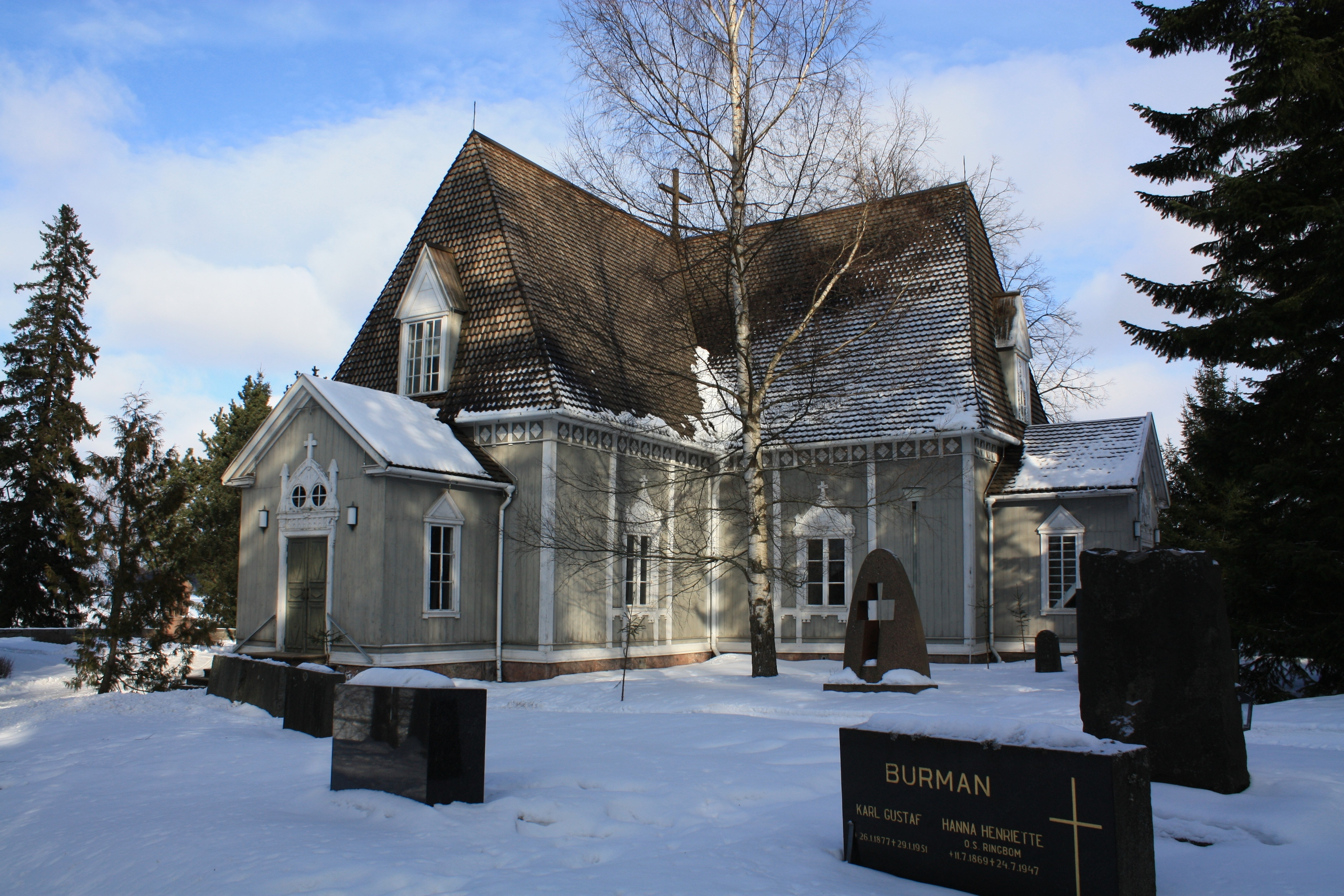 The wooden church of Tuusula, Finland in winter. The church was build in 1734.